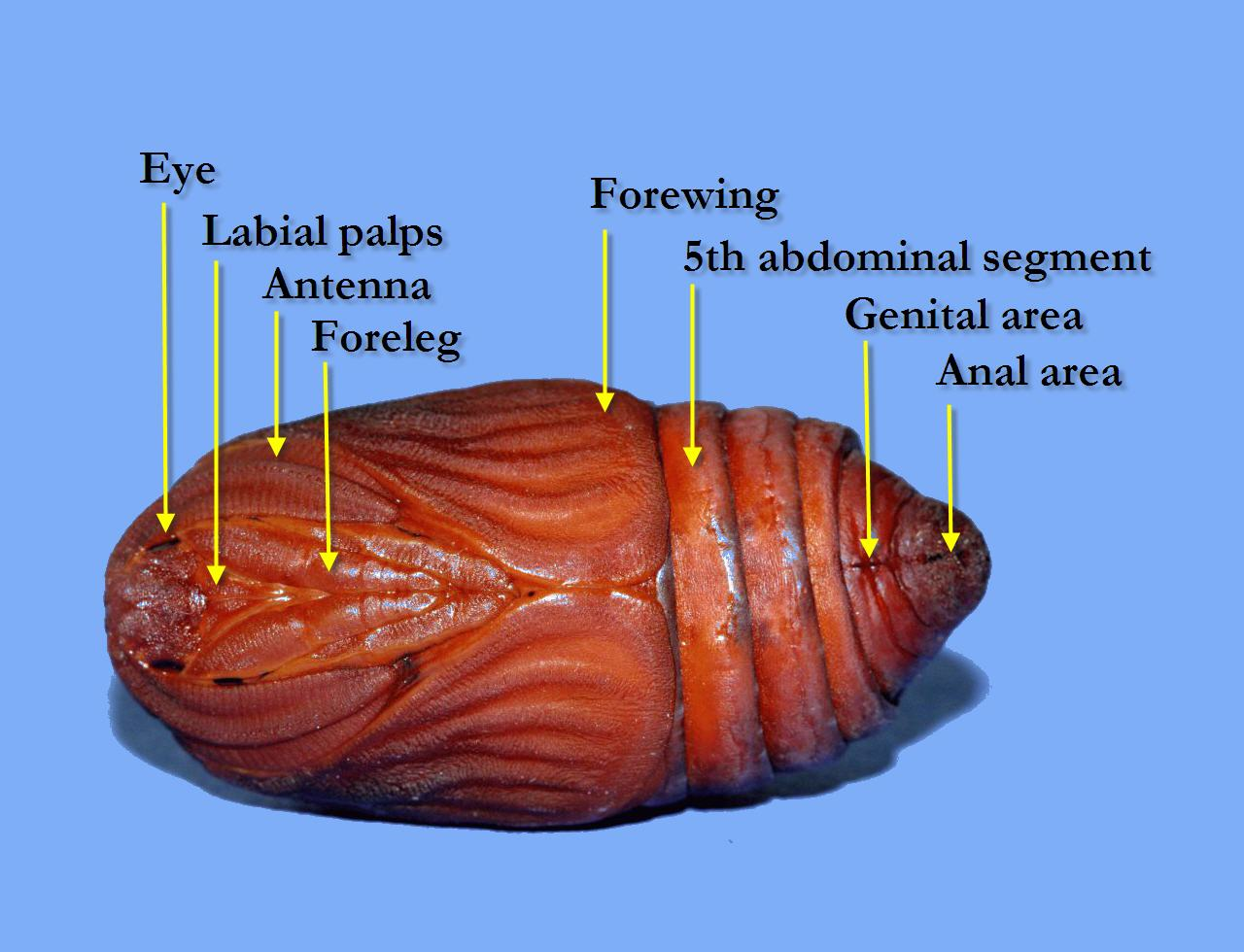 Male Cecropia Moth (Hyalophora cecropia) pupa morphology - labels in English